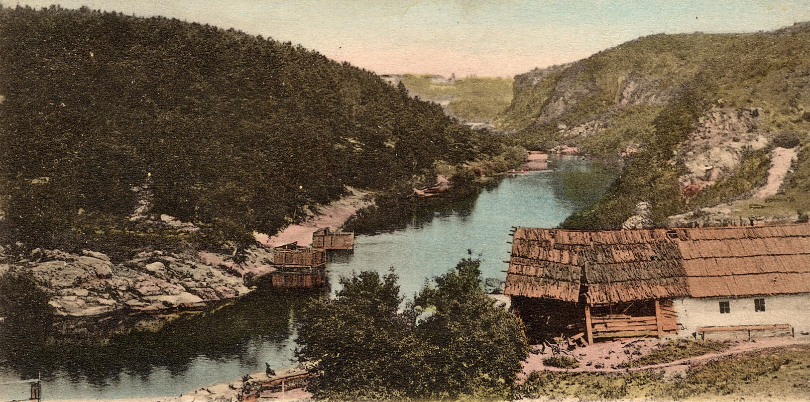 Teteriv river by Zhytomyr.